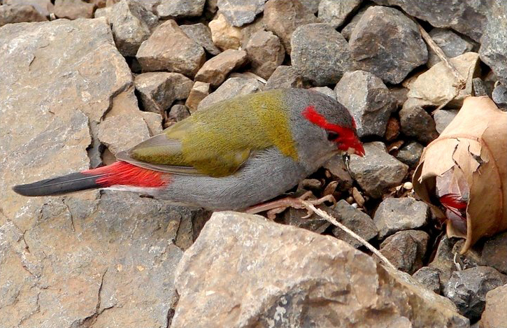 Neochmia temporalis adult. Mowbullan, Queensland, Australia 26°51'54"S 151°36'26"E.